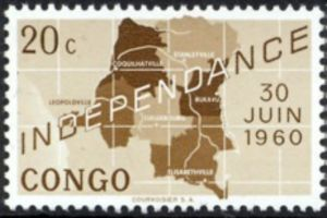 A 20 centime stamp issued by the Republic of the Congo (the modern-day Democratic Republic of the Congo) celebrating the Congo's independence from Belgium in June 1960.